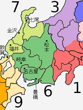 Third Army Region of Japan. According to the Rokkan-Chindai hyo (6 Regions of Chindais Table) of 1875. It was divided two divisional regions. The southern area is the sixth divisional region of Nagoya. The northern was the seventh divisional region of Kanazawa.